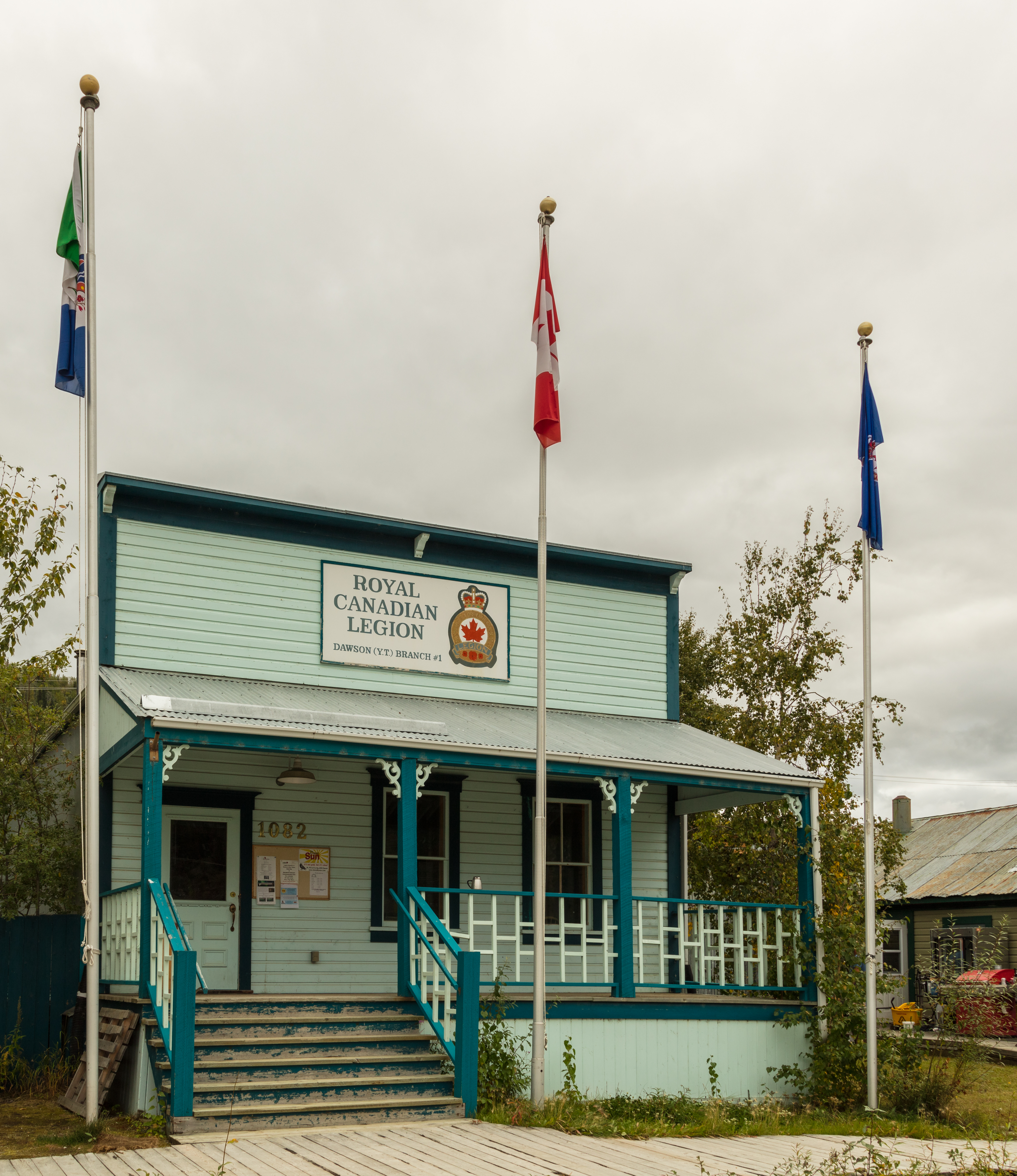 Royal Canadian Legion building, Dawson City, Yukon, Canada